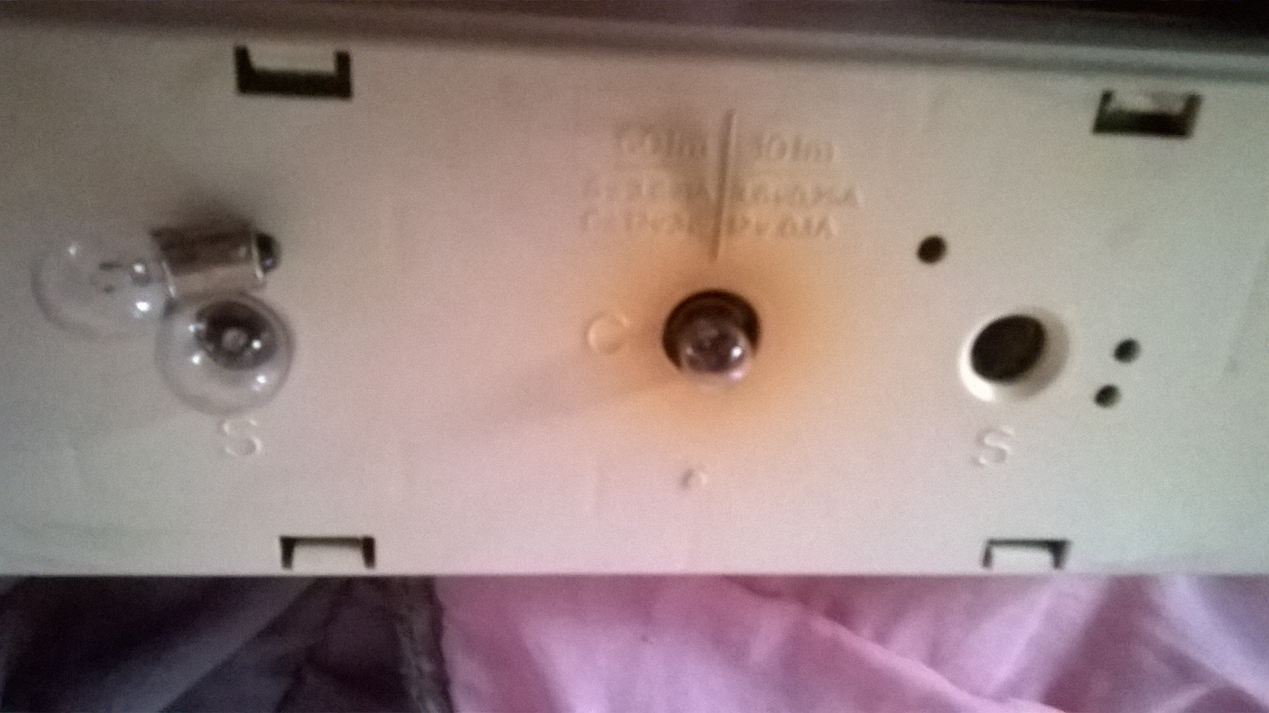 Older Saft/Ura Autonomous Security Lighting Bloc using old incandescent lamps with cover taken removed.